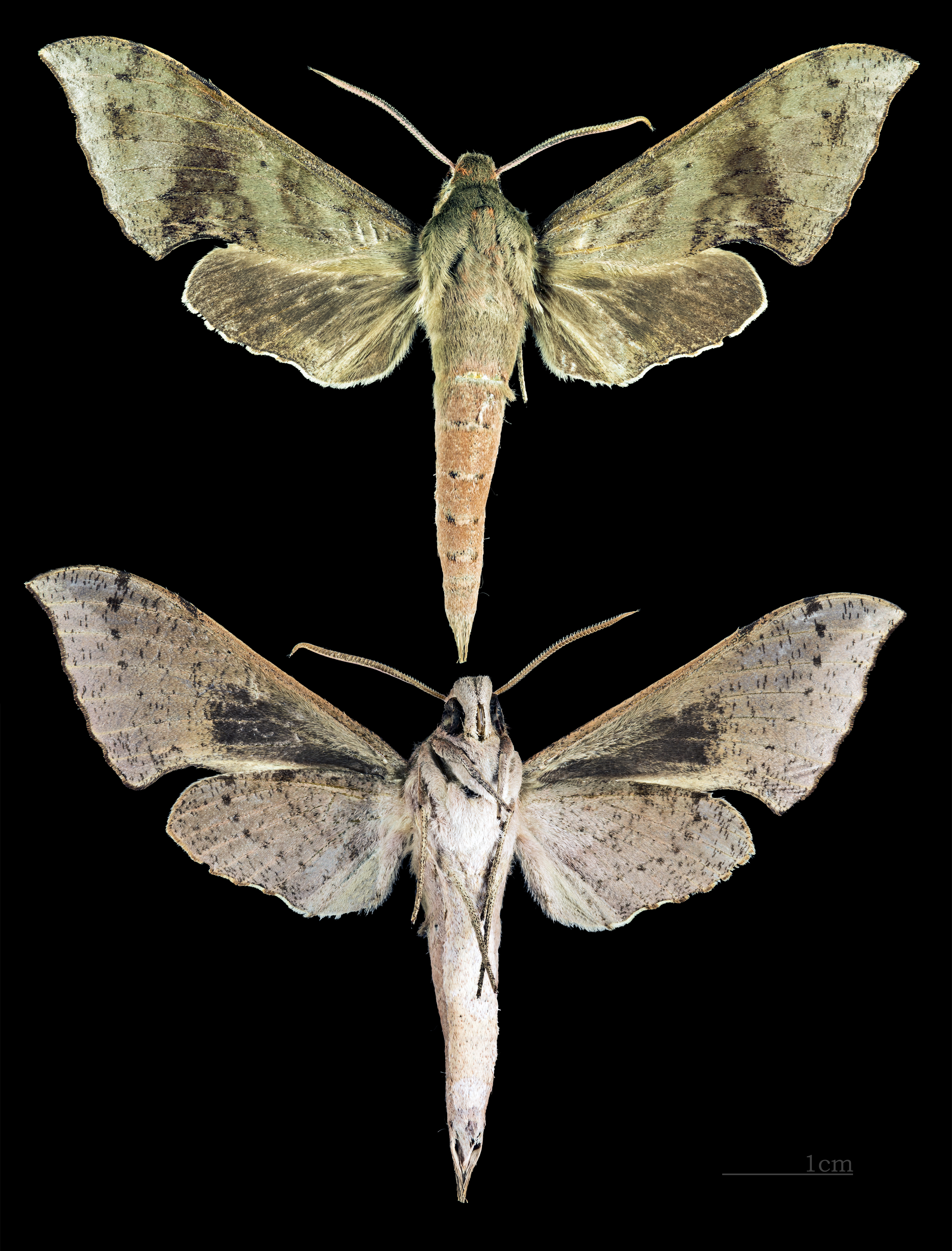 Xylophanes germen germen - Two views of same specimen